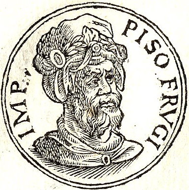 Lucius Calpurnius Piso Frugi was a Roman usurper, whose existence is questionable, as based only on the unreliable Historia Augusta.